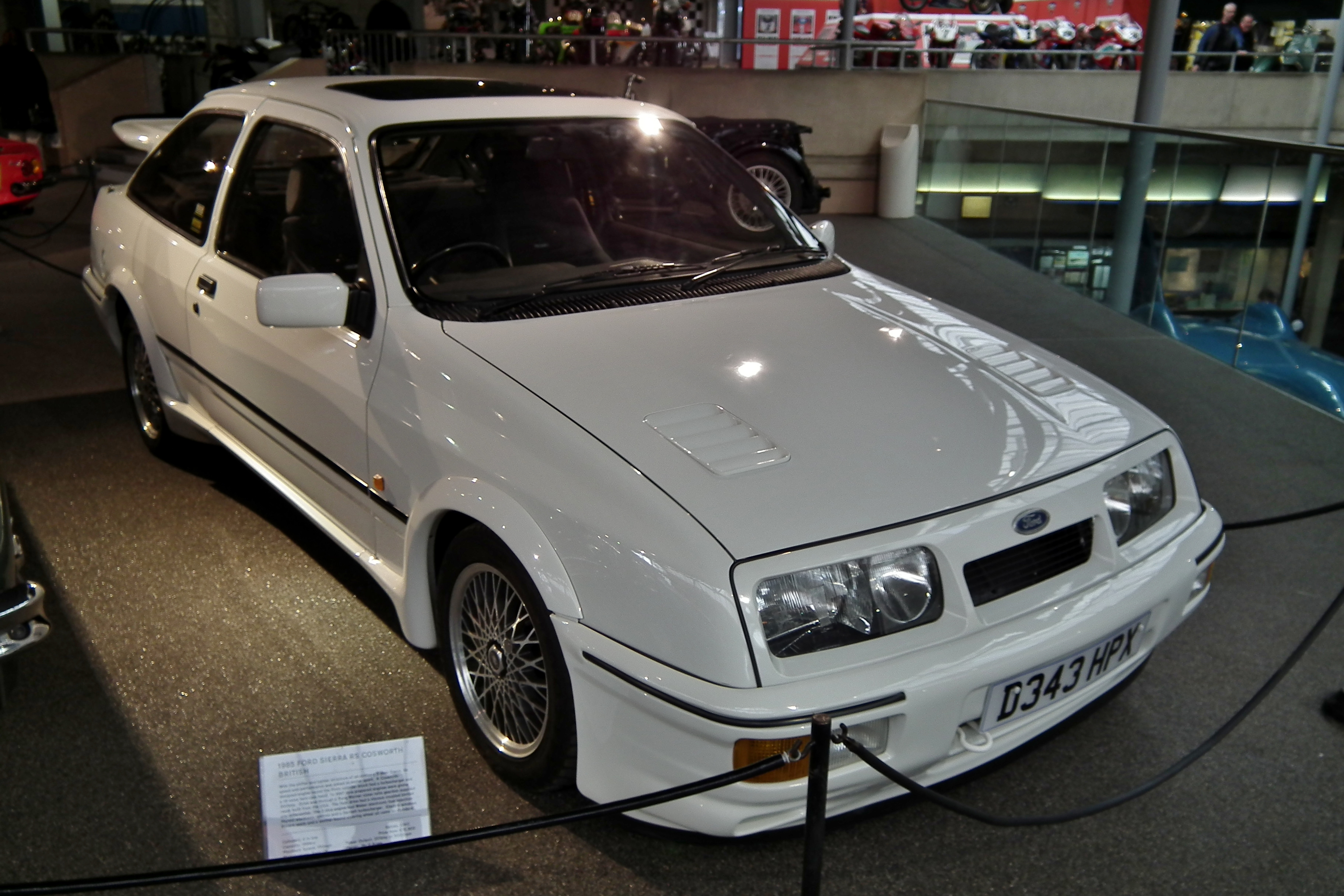 1985 Ford Sierra RS Cosworth. Taken at the National Motor Museum in Beaulieu, Hampshire, England.